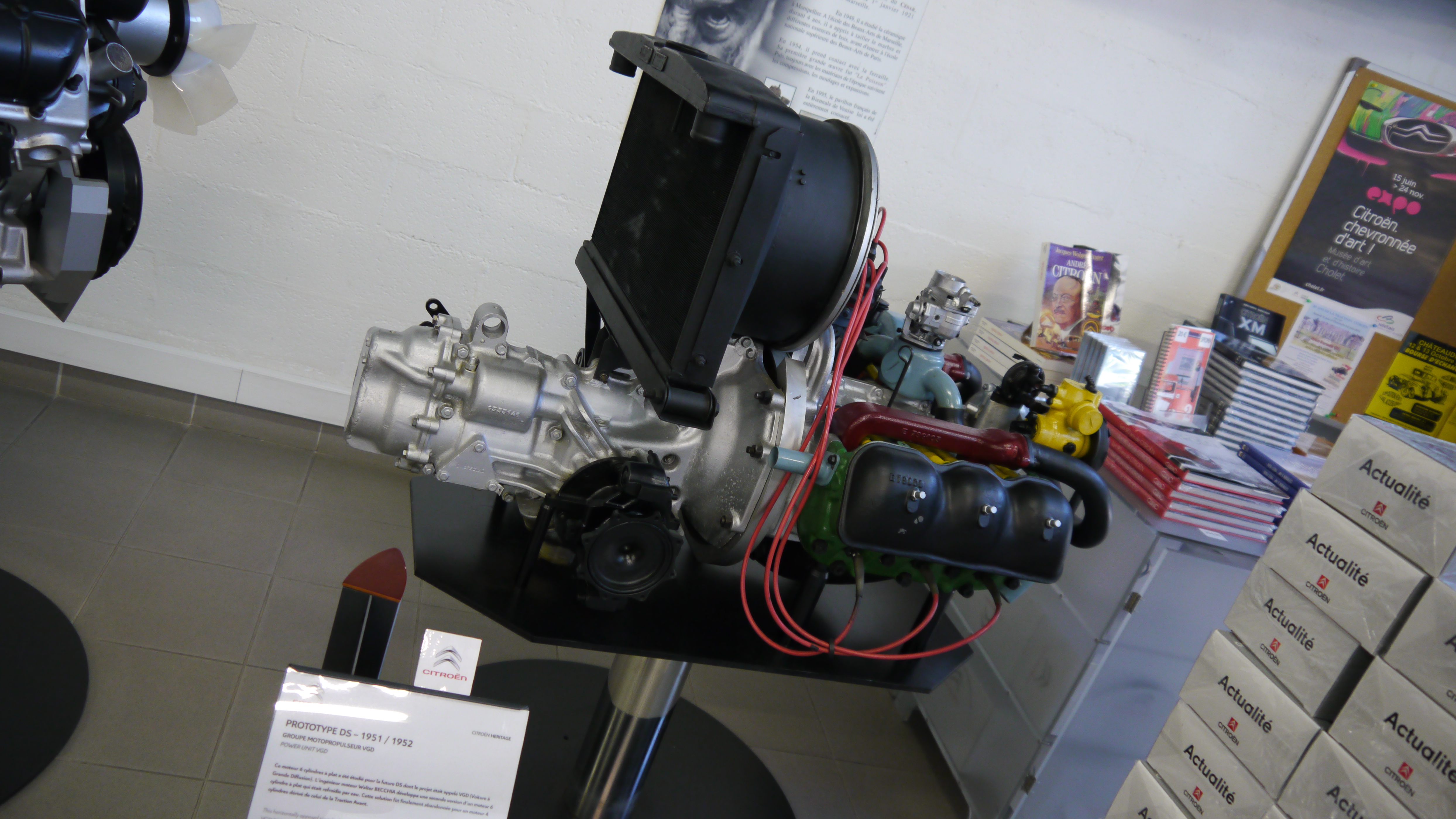 Prototype DS - 1951/1952 Groupe Motopropulseur VGD Power Unit VGD